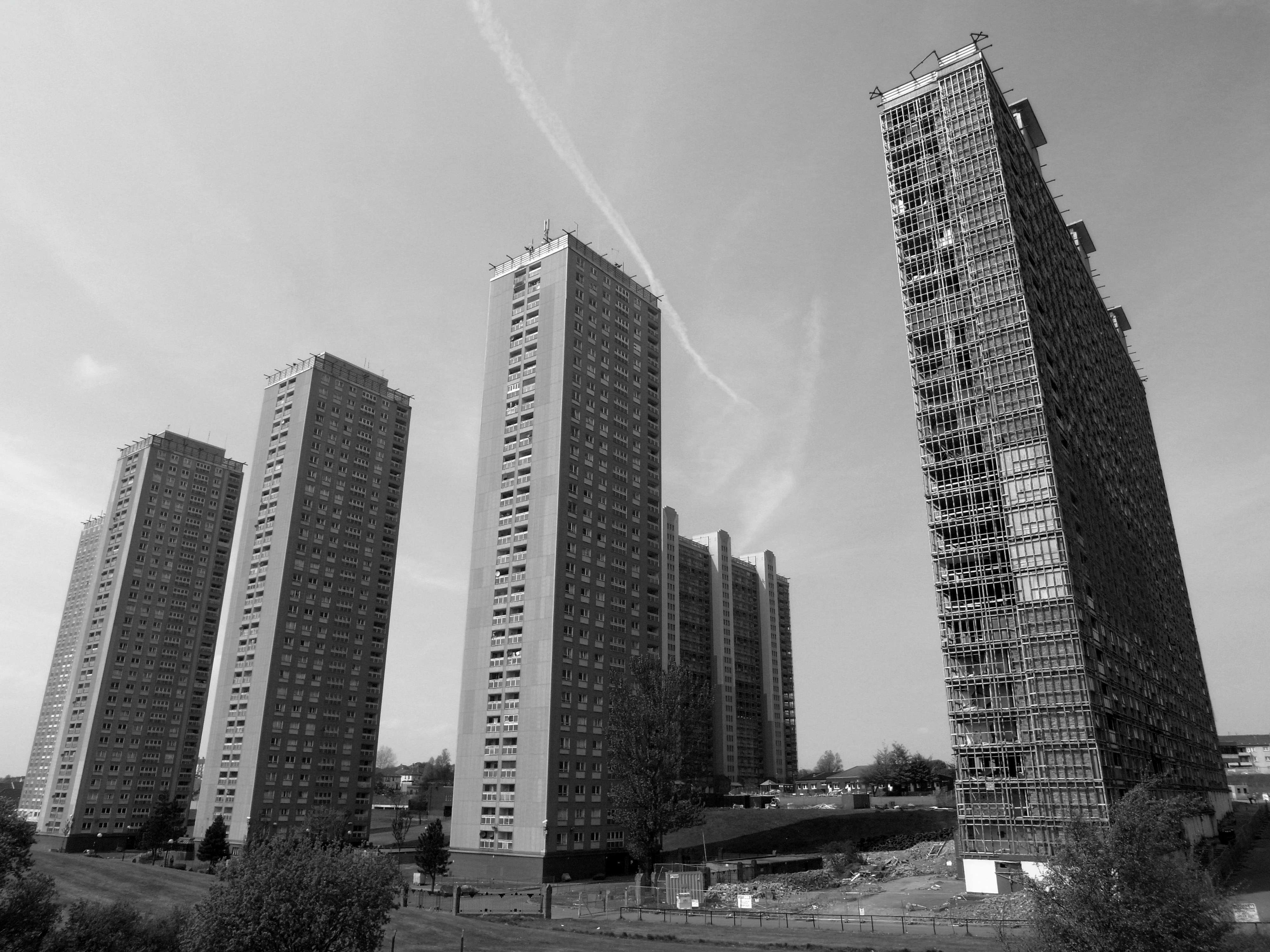 Glasgow. Balornock. Red Road Flats, view from Broomfield Road. Demolished 2012 - 2015.